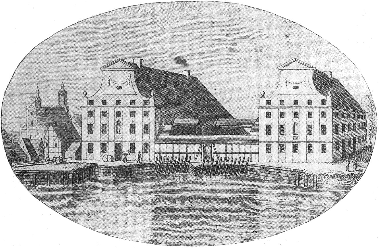 St. Clara watermills on F.G.Endler's copper engraving